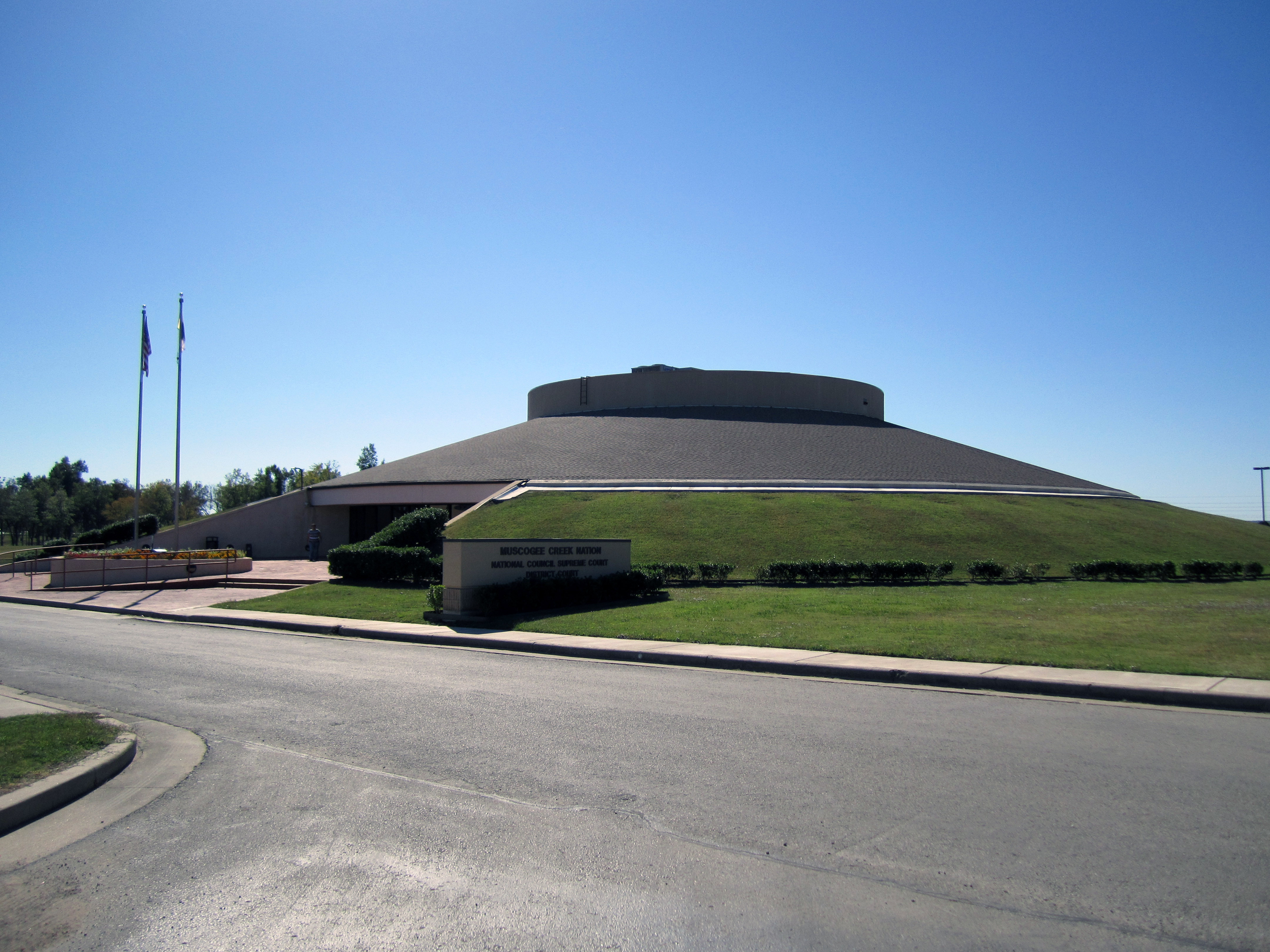 Building that houses both the Legislative and Judicial Branch of the Muscogee (Creek) Nation